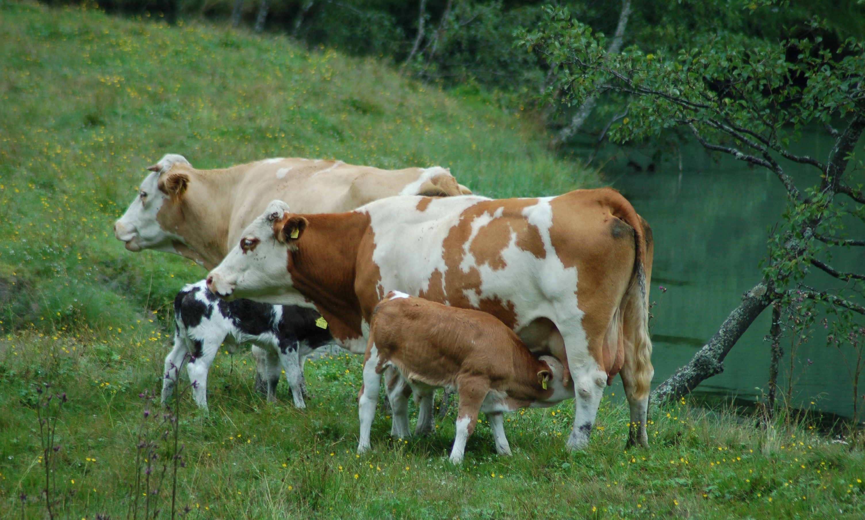 Cows and her suckling calves on alpine pastures. At the entrance to the Seebachtal in Mallnitz, Carinthia.